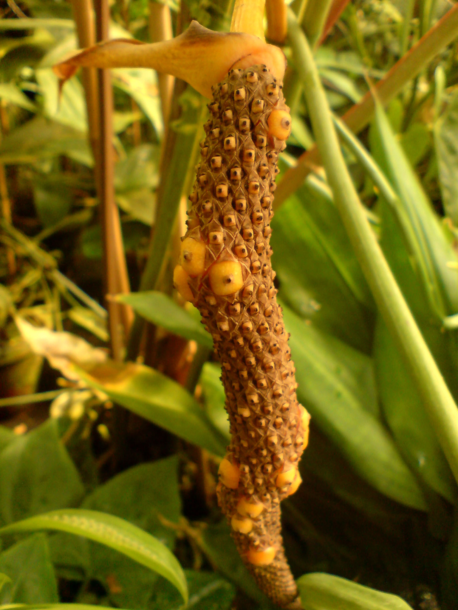 Anthurium andicola - Botanical Garden Göttingen